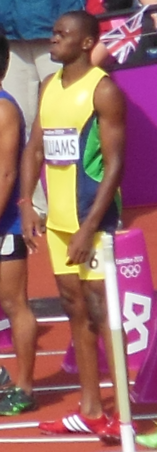 Athletics at the 2012 Summer Olympics – Men's 100 metres, Preliminaries heat 4: Courtney Carl Williams